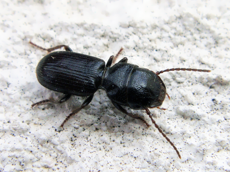 Dixus sphaerocephalus in Ansião, Leiria, Portugal